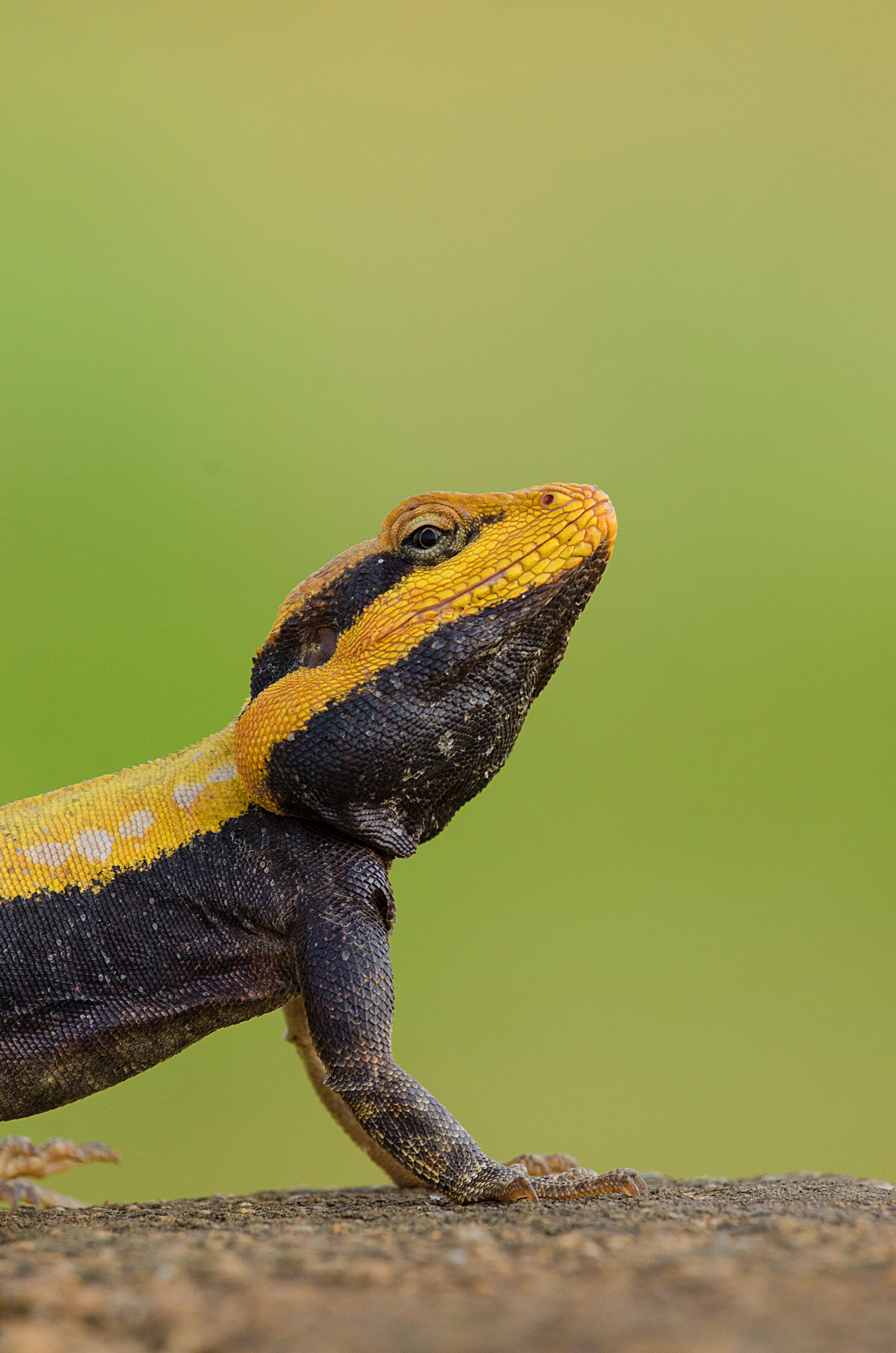 Peninsular rock agama, also described as Psammophilus dorsalis recorded from Bangalore